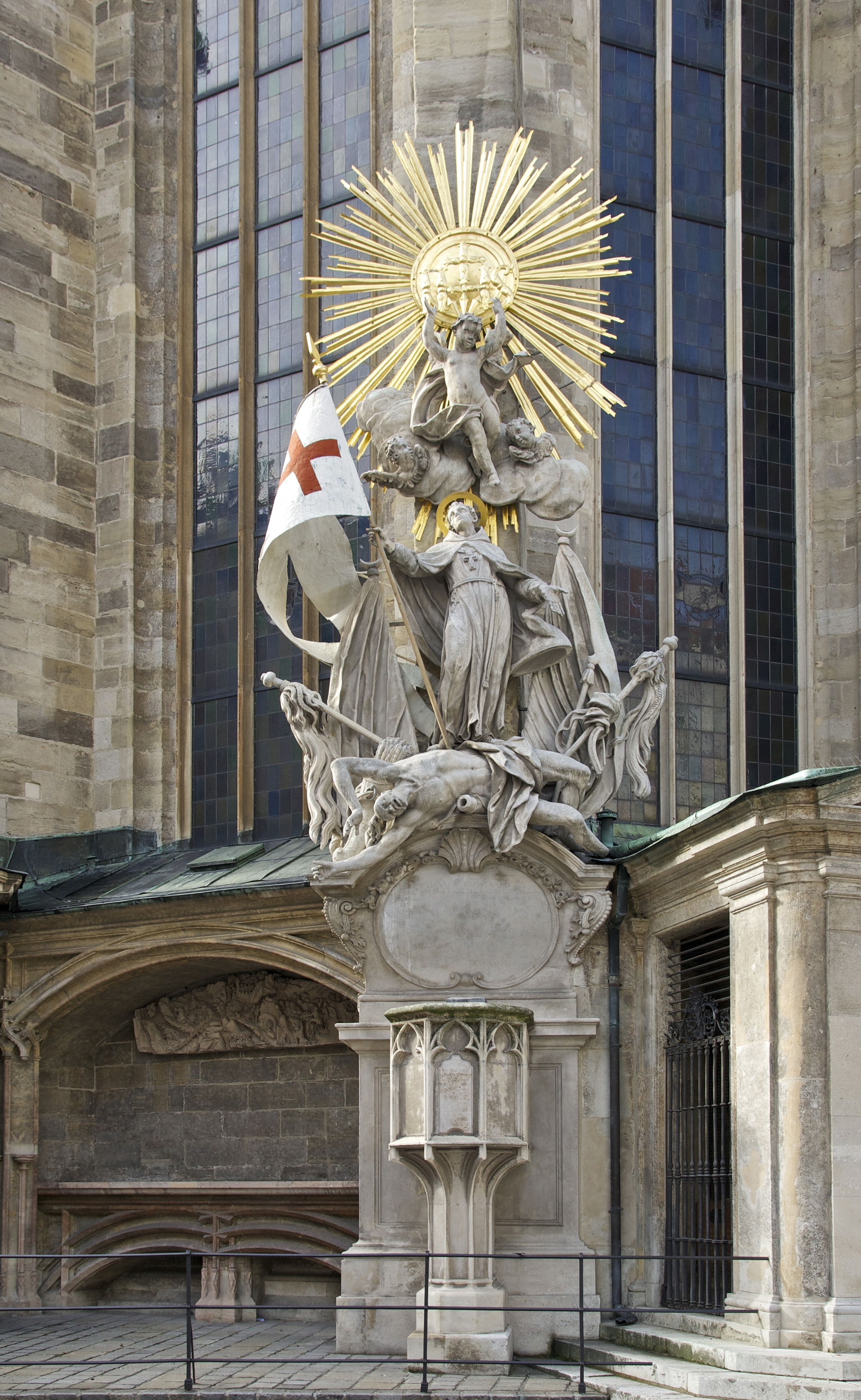 The gothic pulpit, and the monument to Saint John of Capistrano, outside the St. Stephen's cathedral in Vienna, Austria.